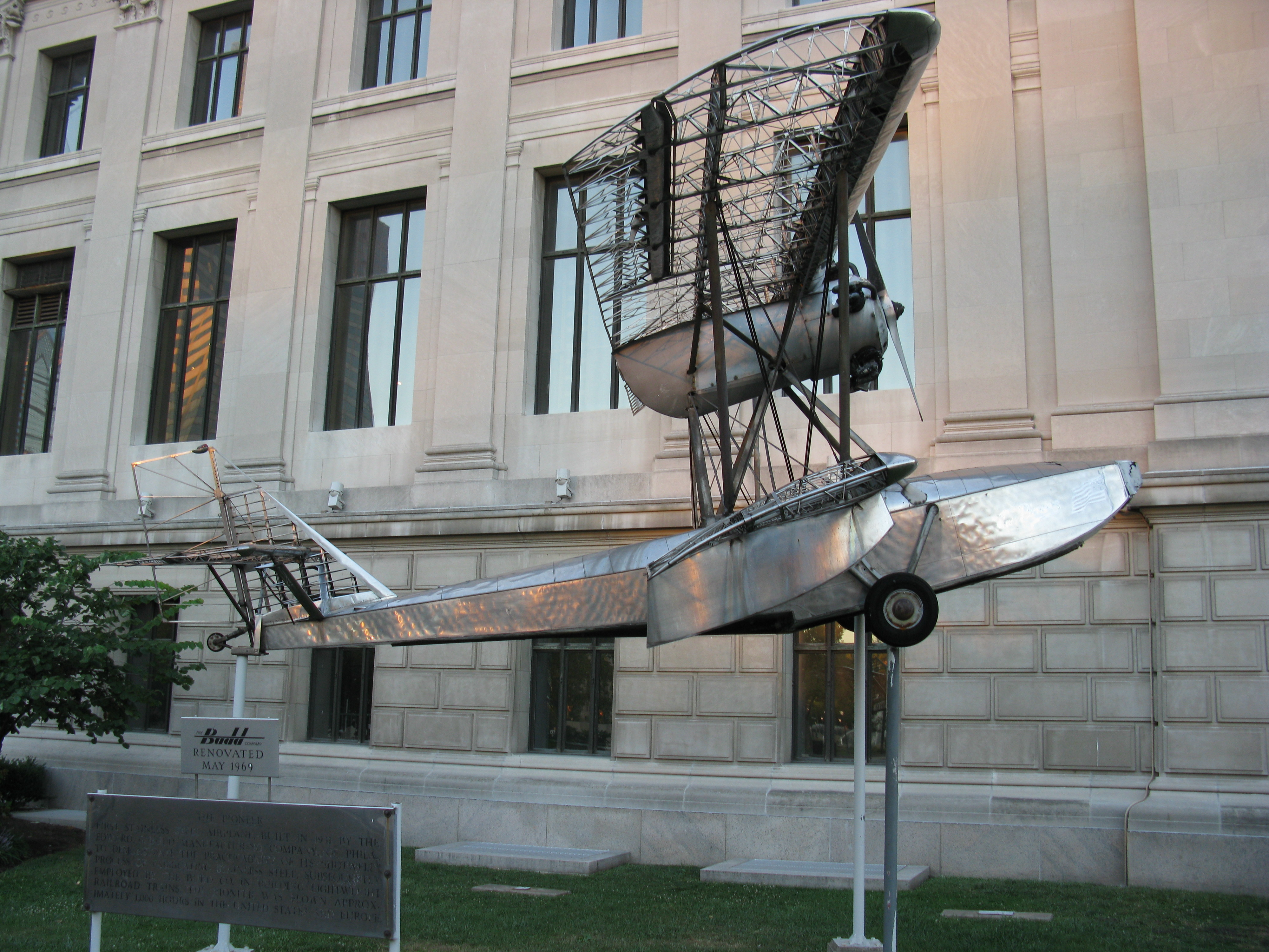 The Budd BB-1 Pioneer airplane in front of the Franklin Institute in Philadelphia, PA. It was designed by Enea Bossi of the Budd Company, and was the first stainless steel aircraft ever built. It has been on display in front of the Franklin Institute since 1935.